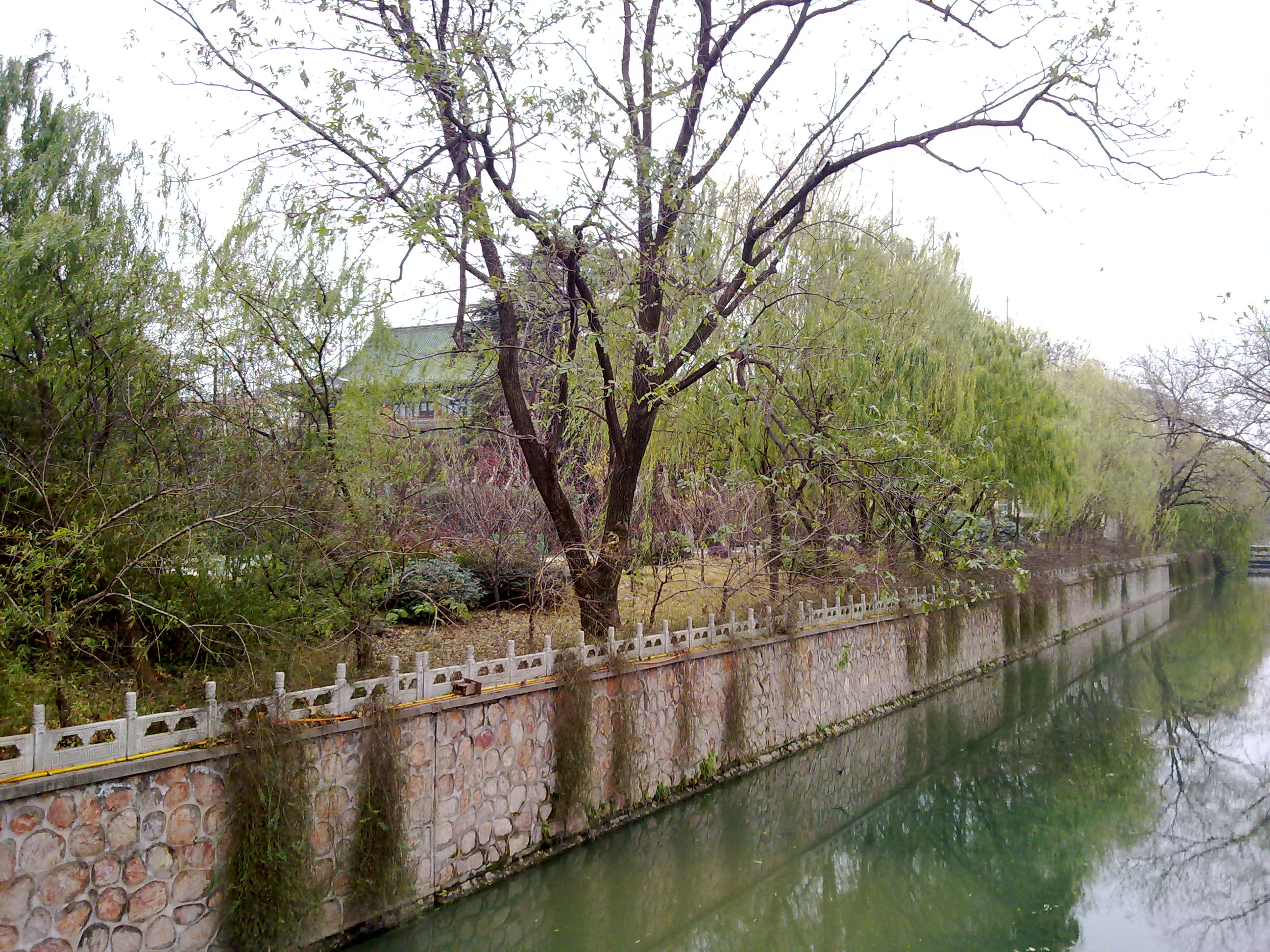 Southeast Moat of Nanjing Ming Palace